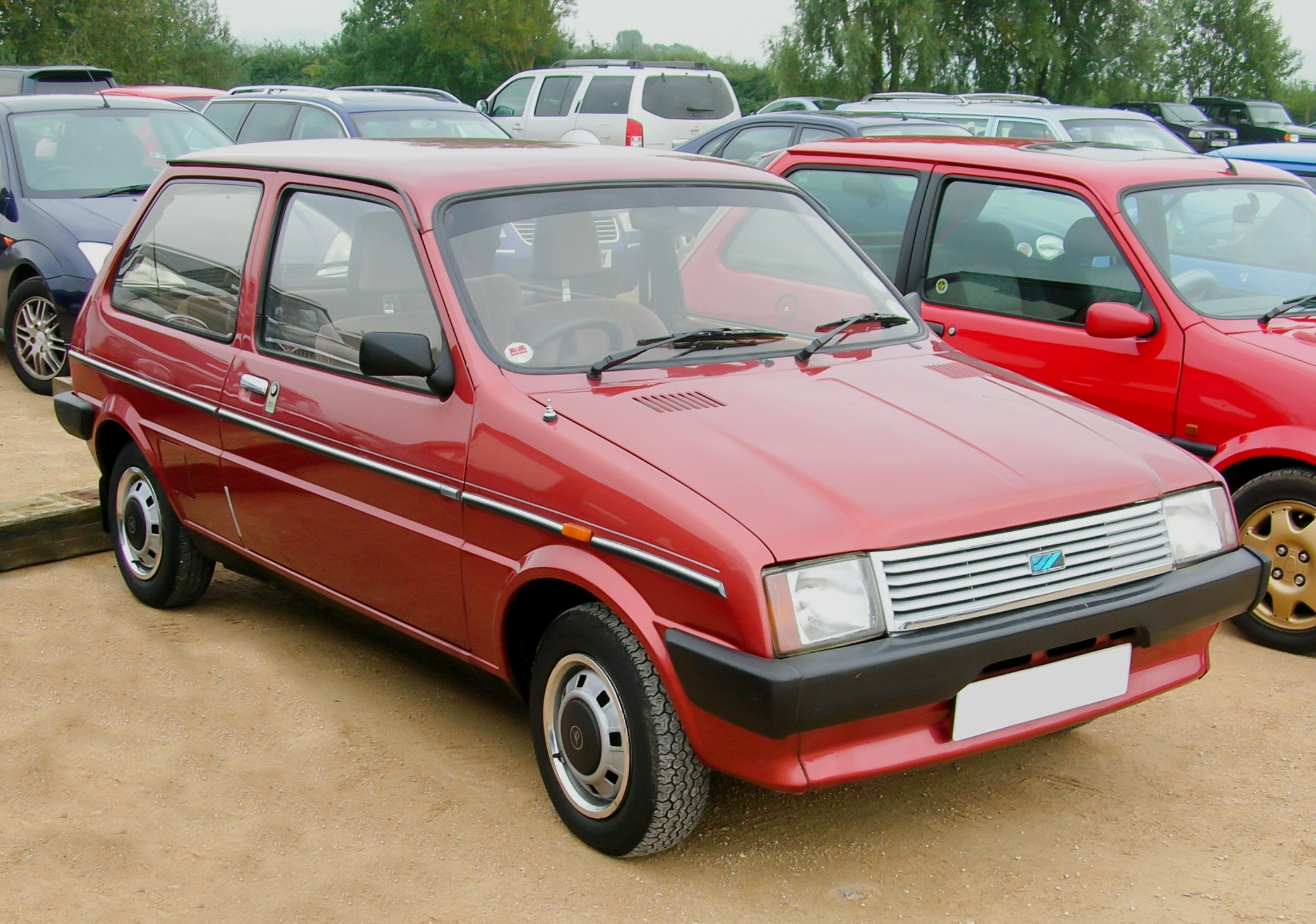 A 1983 British Leyland Austin Metro Automatic